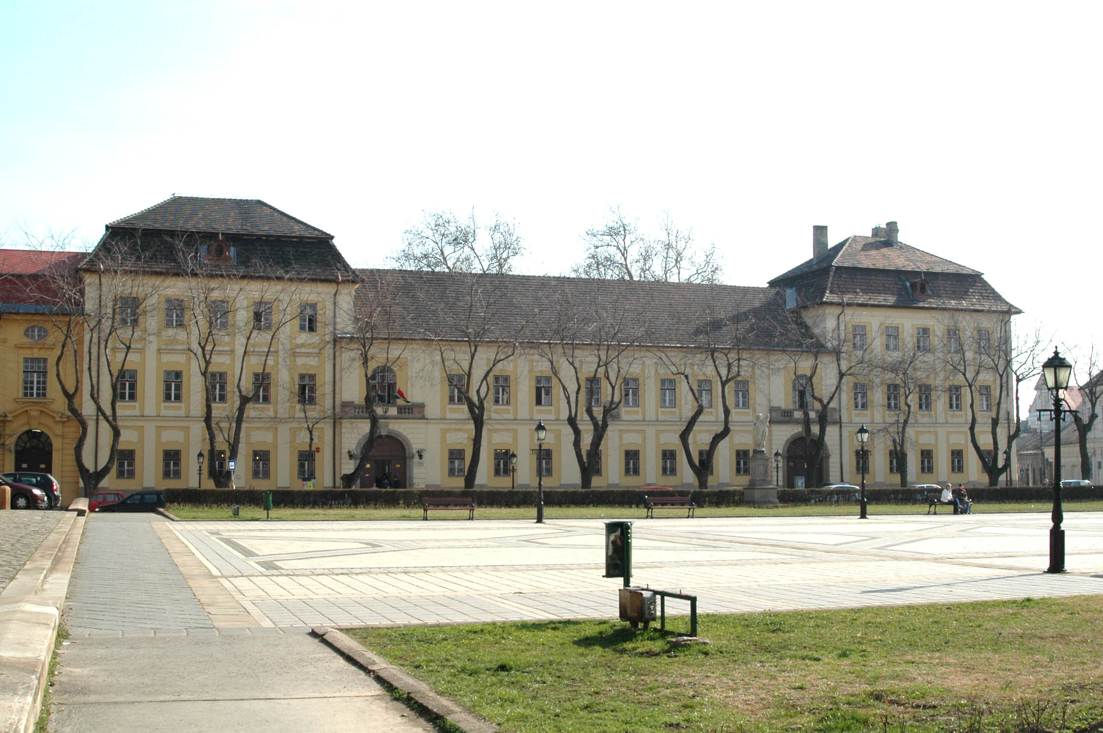 Catholic University of Vác. Apor Vilmos Katolikus Főiskola. - Vác, Schuszter Konstantin tér 3 (1-5)